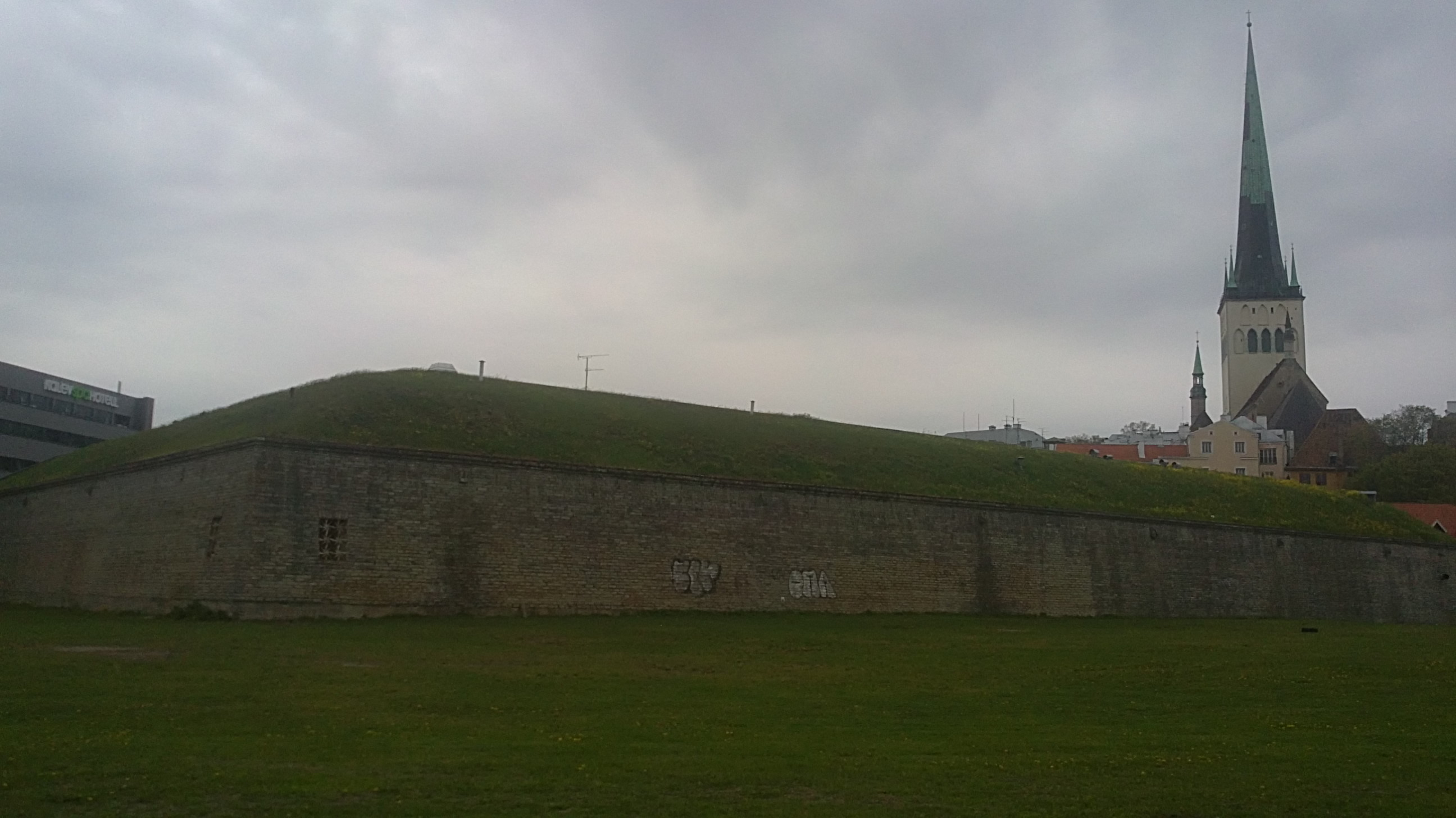 Bastions of Small Coastal Gate